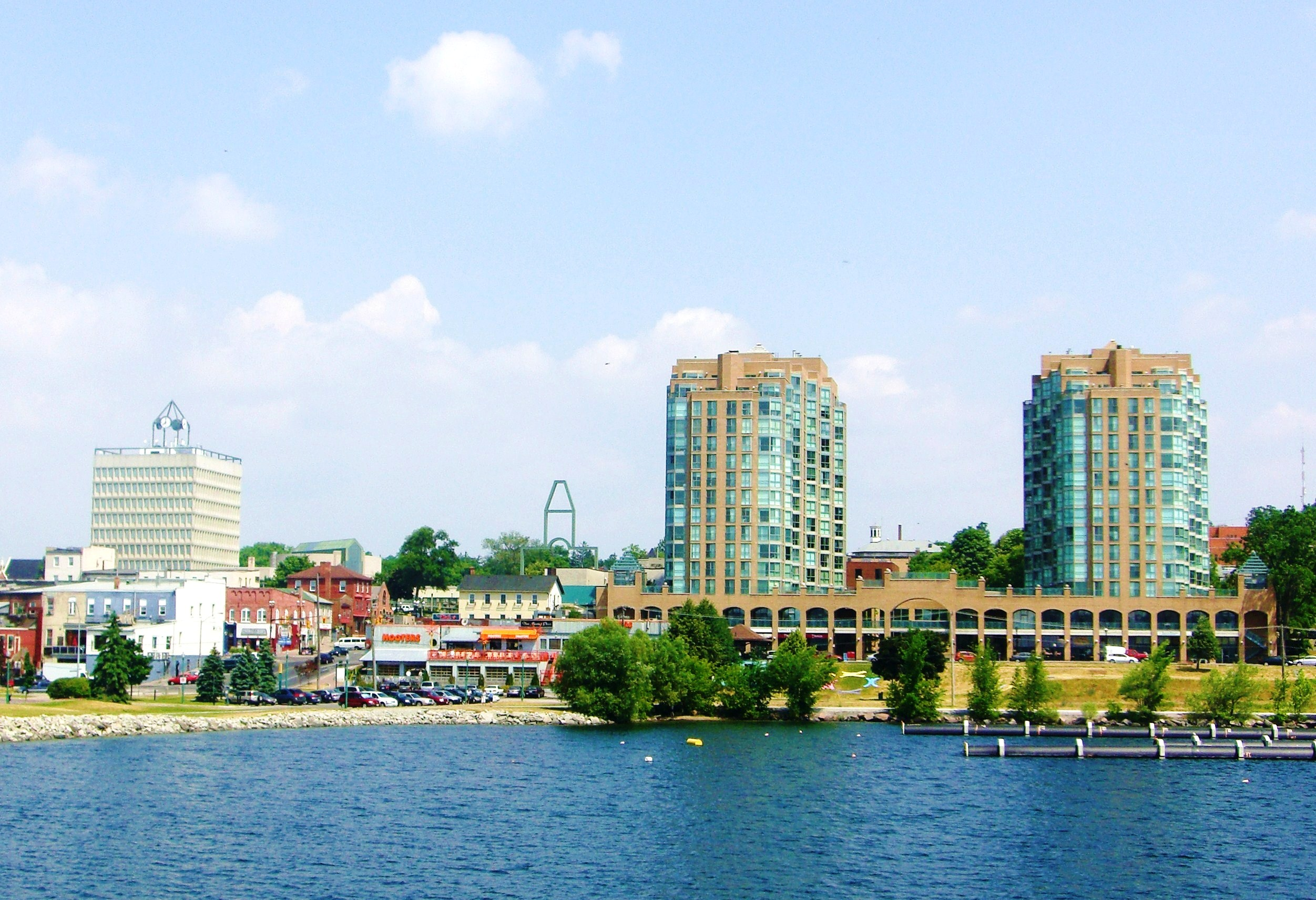 A view of a portion of downtown Barrie, Ontario, from Kempenfelt Bay.